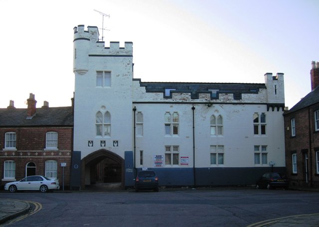 The Drill Hall, Albion Street Originally built in 1868, the Volunteer's Drill Hall has now been converted into apartments.